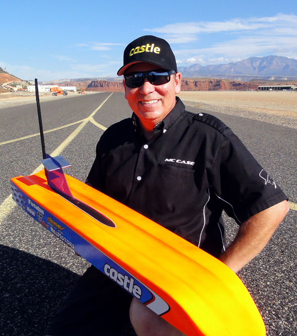 Nic Case with the RC Bullet - First RC Car to achieve 200 mph